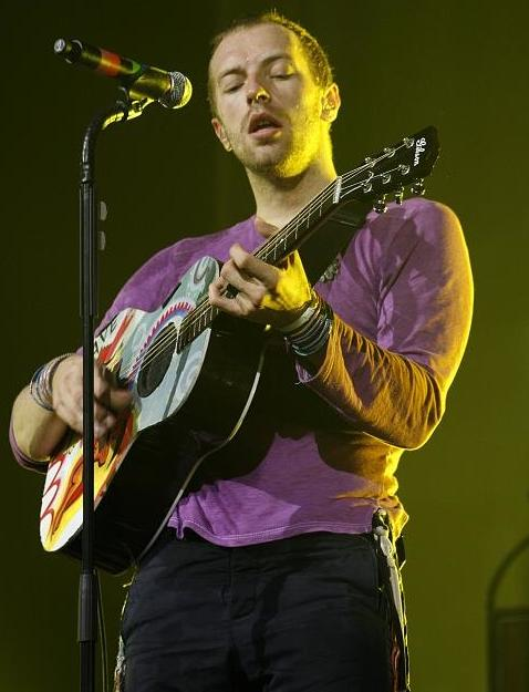 Chris Martin playing the guitar during Coldplay's 2008 Viva la Vida tour.